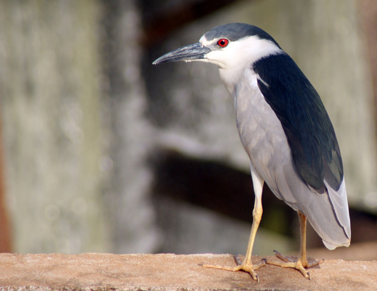 Black-crowned Night Heron (Nycticorax nycticorax), commonly abbreviated to just Night Heron in Eurasia, is a medium-sized heron found throughout a large part of the world, except in the coldest regions and Australasia (font Wikipedia)